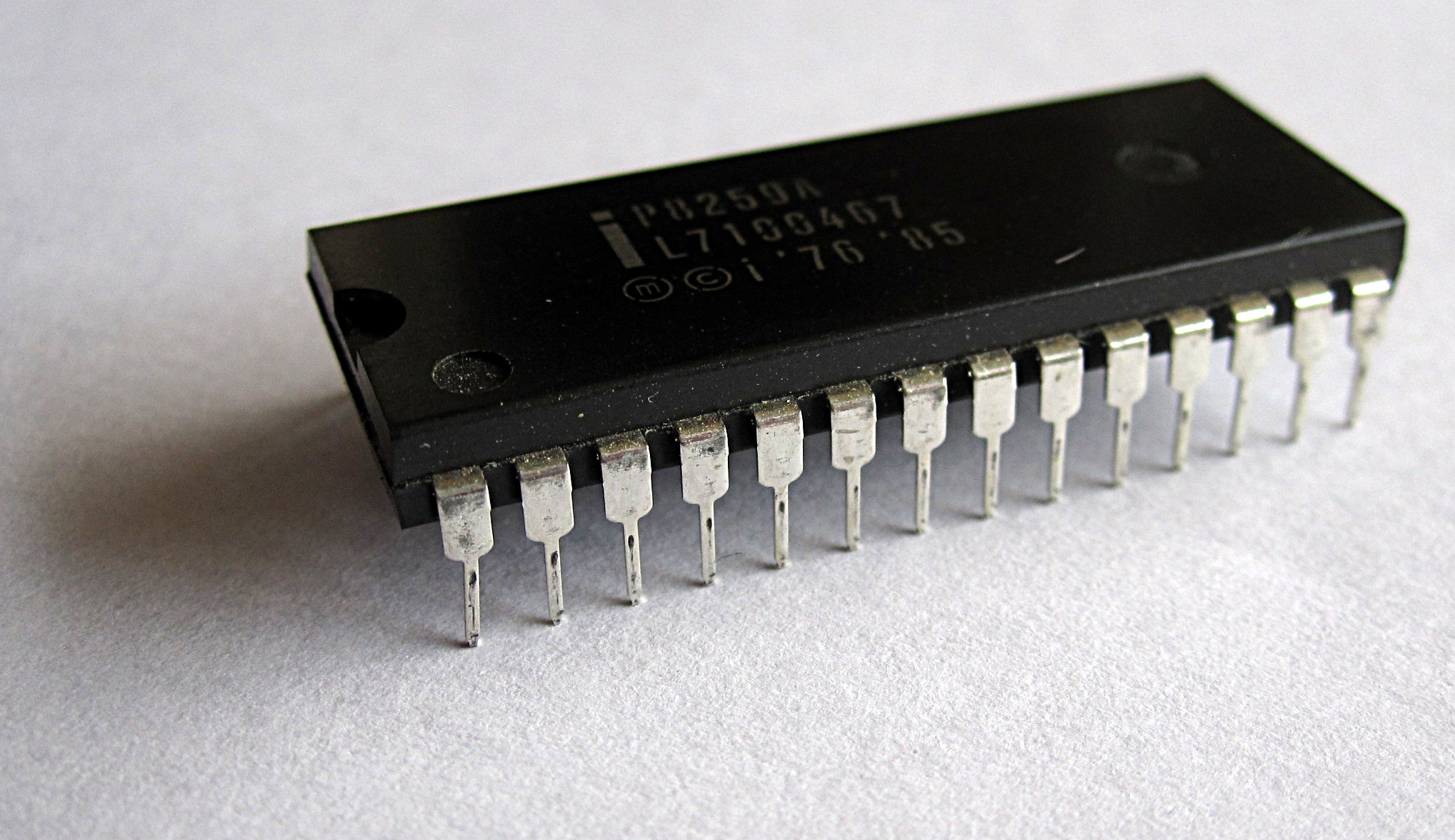 Closeup of an Intel 8259A IRQ chip from a PC XT. As can be seen from the markings this piece was manufactured in 1985.